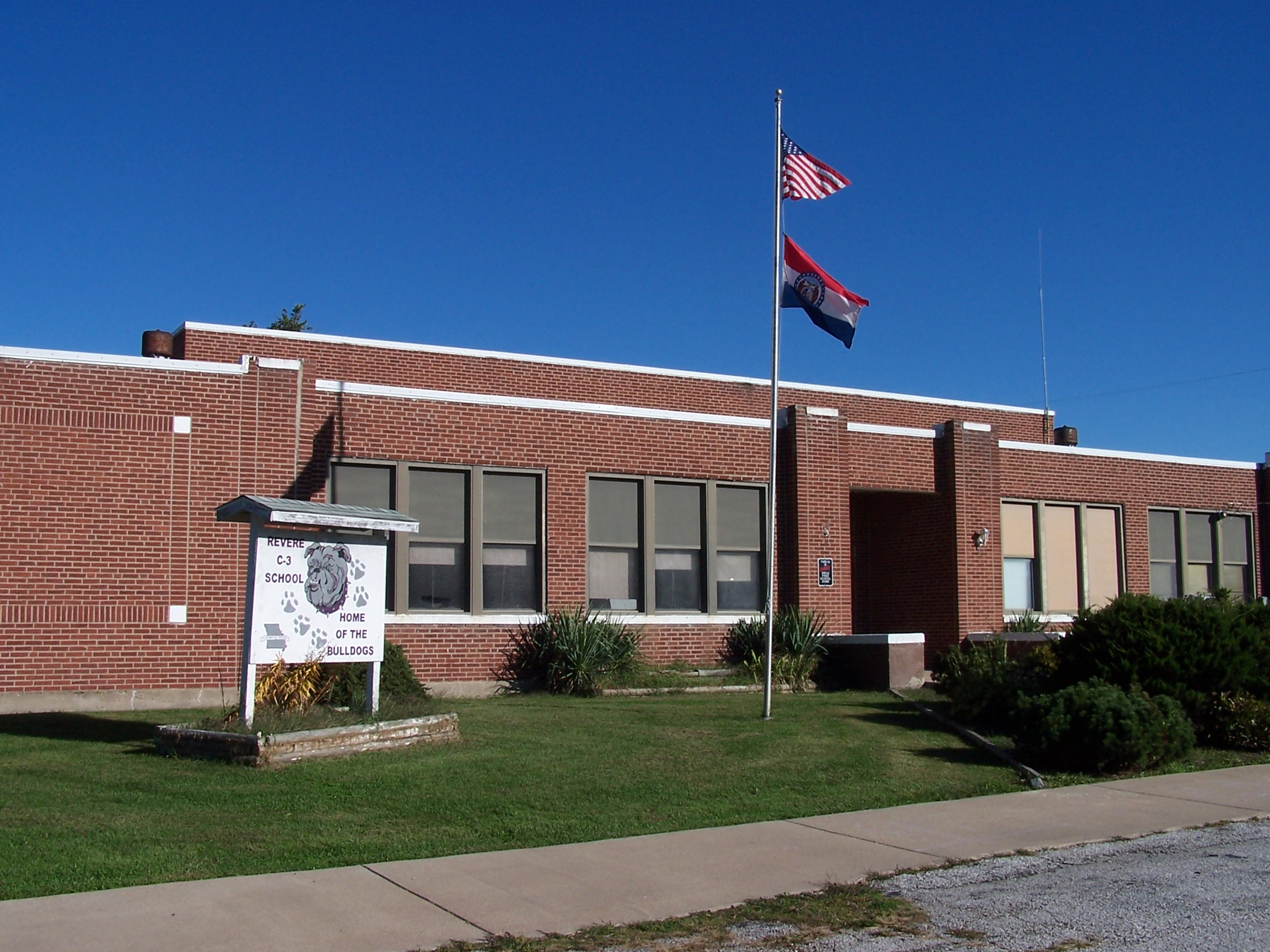 Revere, Missouri high school/elementary school building